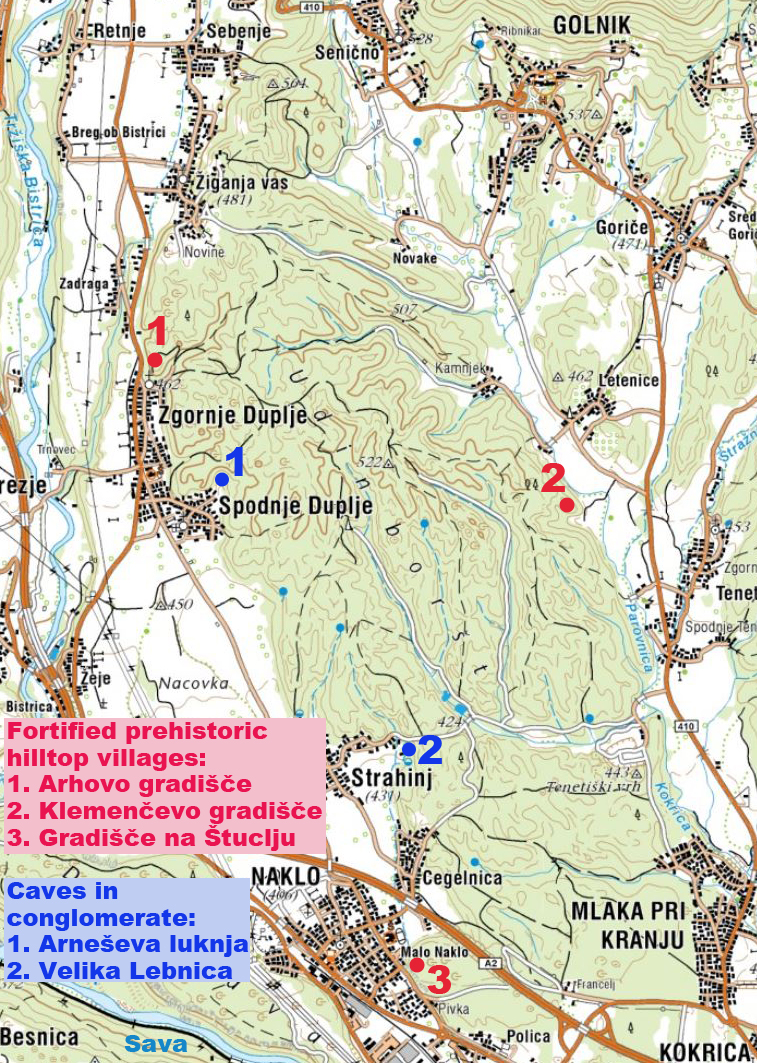 On the map are shown the three most prominent prehistoric hilltop fortified settlements and the two most important karst caves in conglomerate.